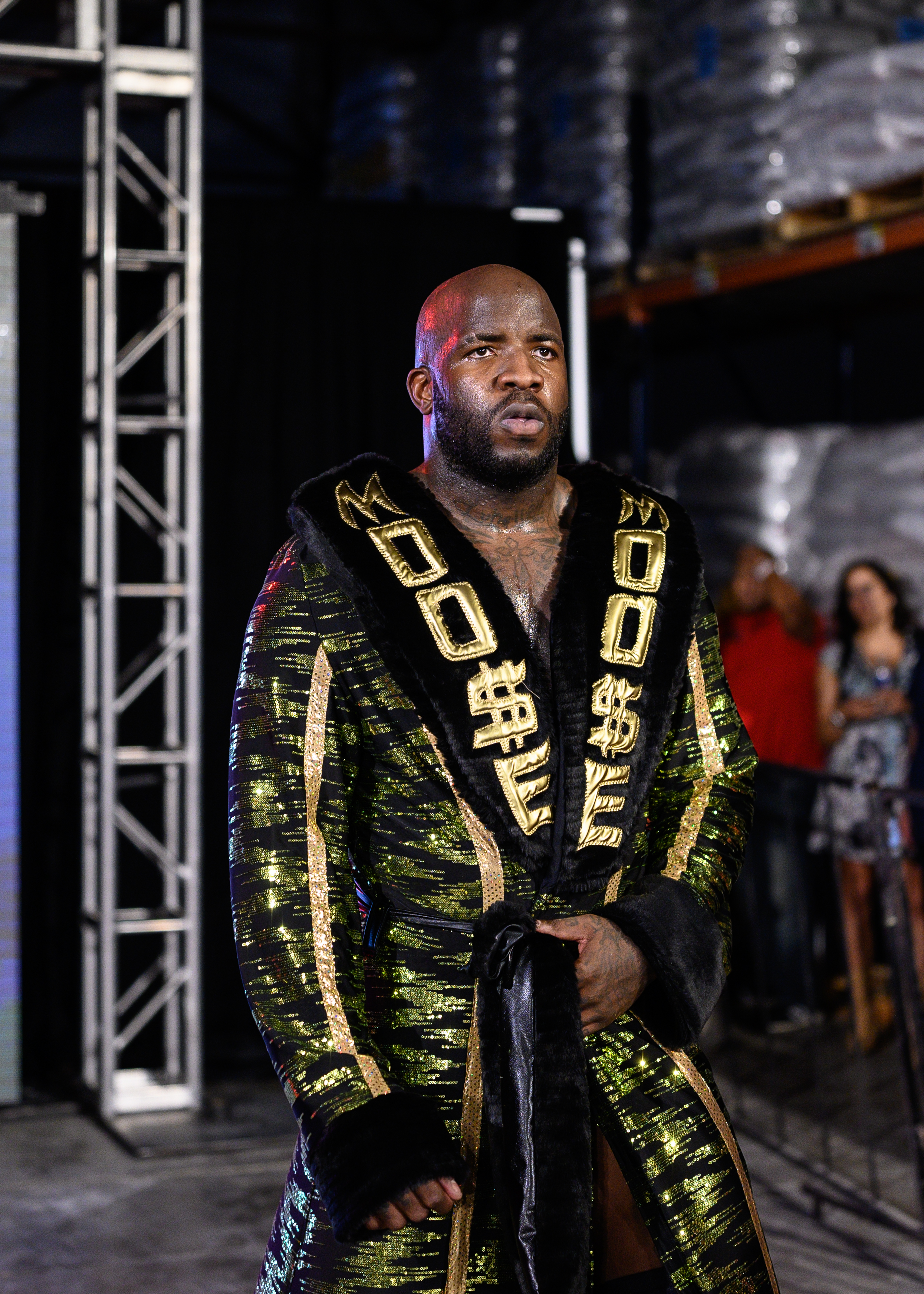 RCW & IMPACT Wrestling present Bash at the Brewery on July 5, 2019. Aired on IMPACT Twitch and IMPACT Plus from Freetail Brewery in San Antonio.